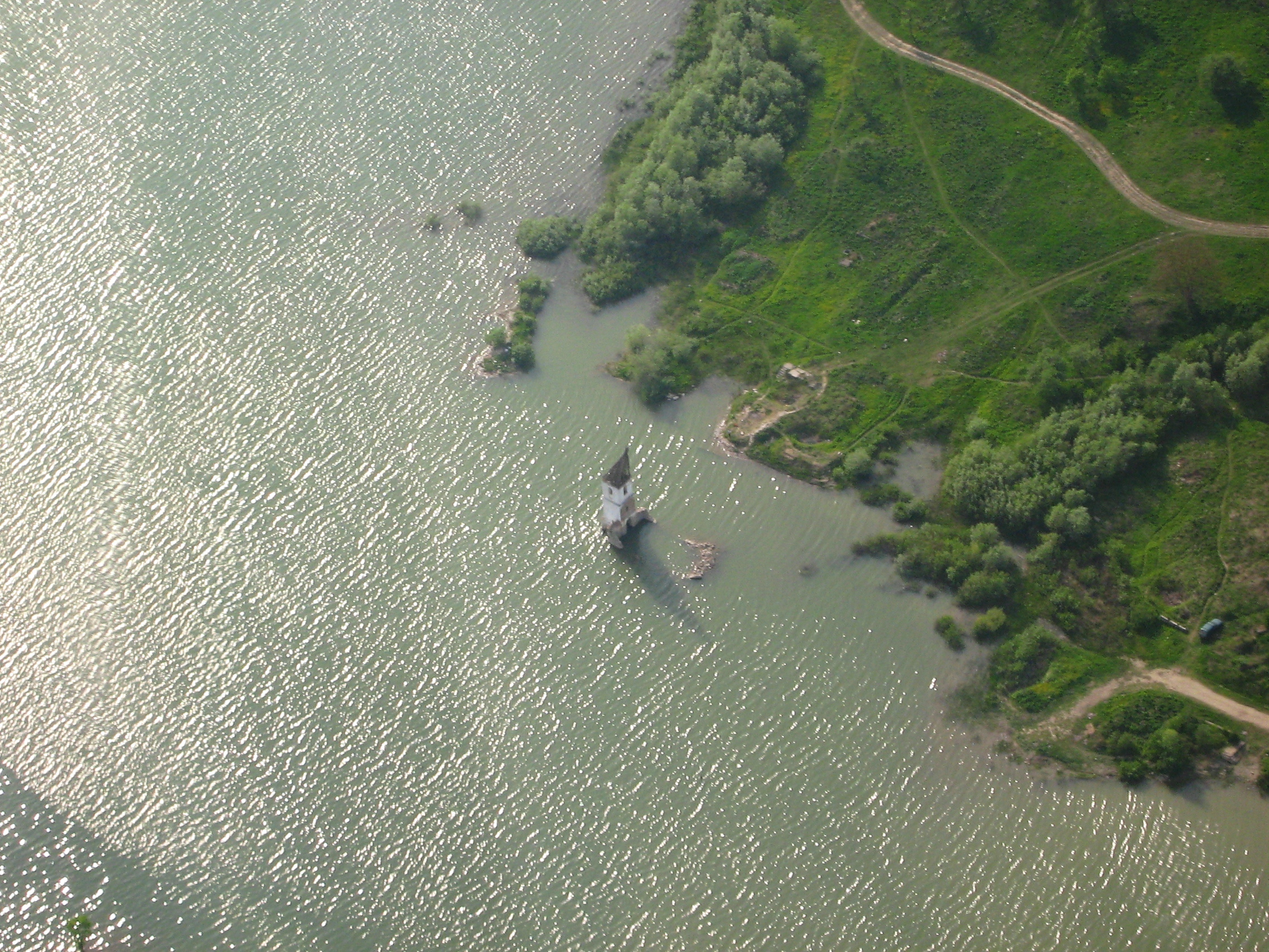 The Bözödi Lake in Transylvania